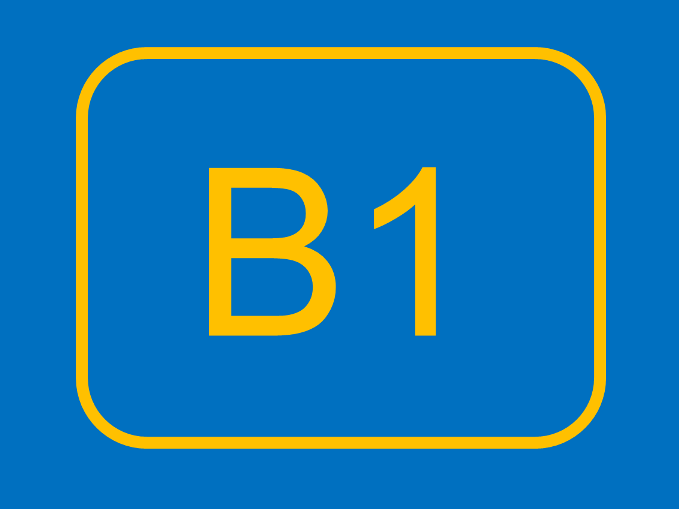 B1 main road logo